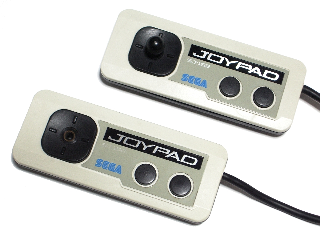 Sega Mark III Joypad